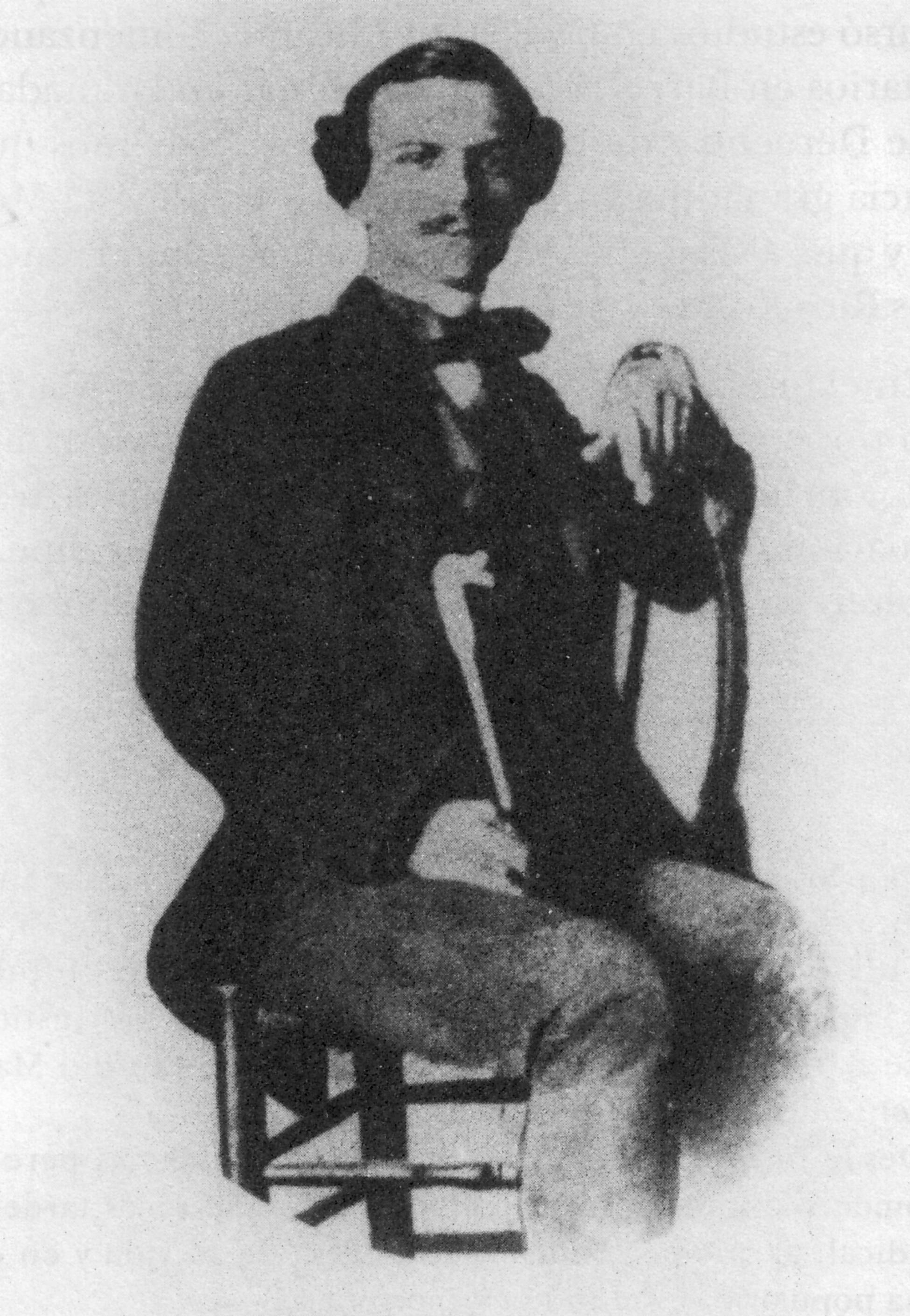 Portrait of Francisco Giner de los Ríos (1839-1915)